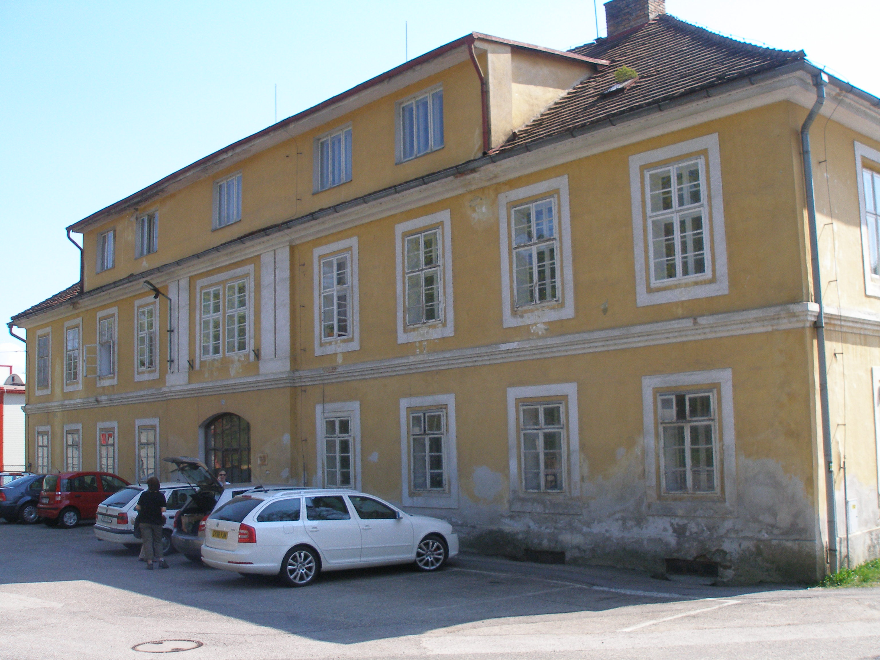 Holubov - the former administrative building of the former ironworks